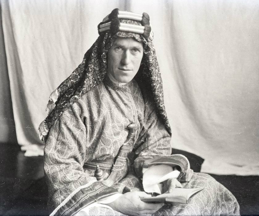 Lieutenant Colonel Thomas Edward Lawrence